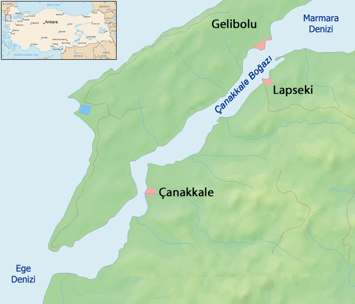 Estrecho de los Dardanelos